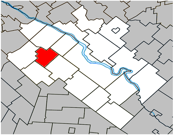 Location of Saint-Edmond-de-Grantham, Quebec within Drummond Regional County Municipality.